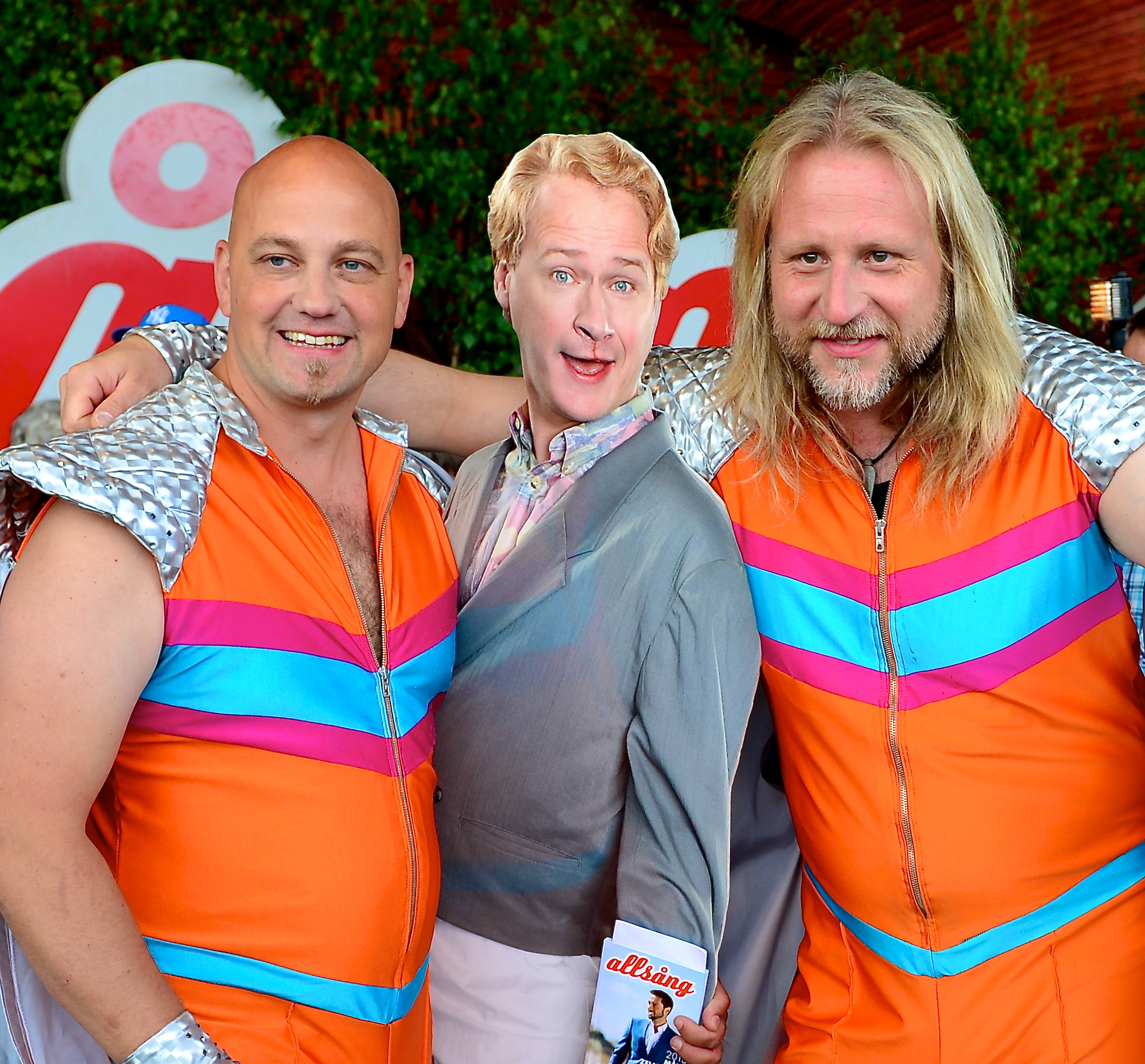 Rolandz during the stage presentation to Allsång på Skansen in Stockholm June 11, 2013.